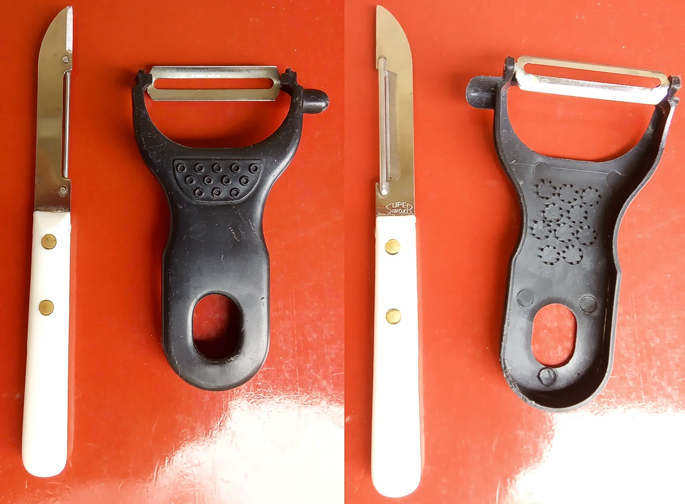 Peeler, with two different solutions for the cutting profile and two different formats of the cutting blade relative to the handle